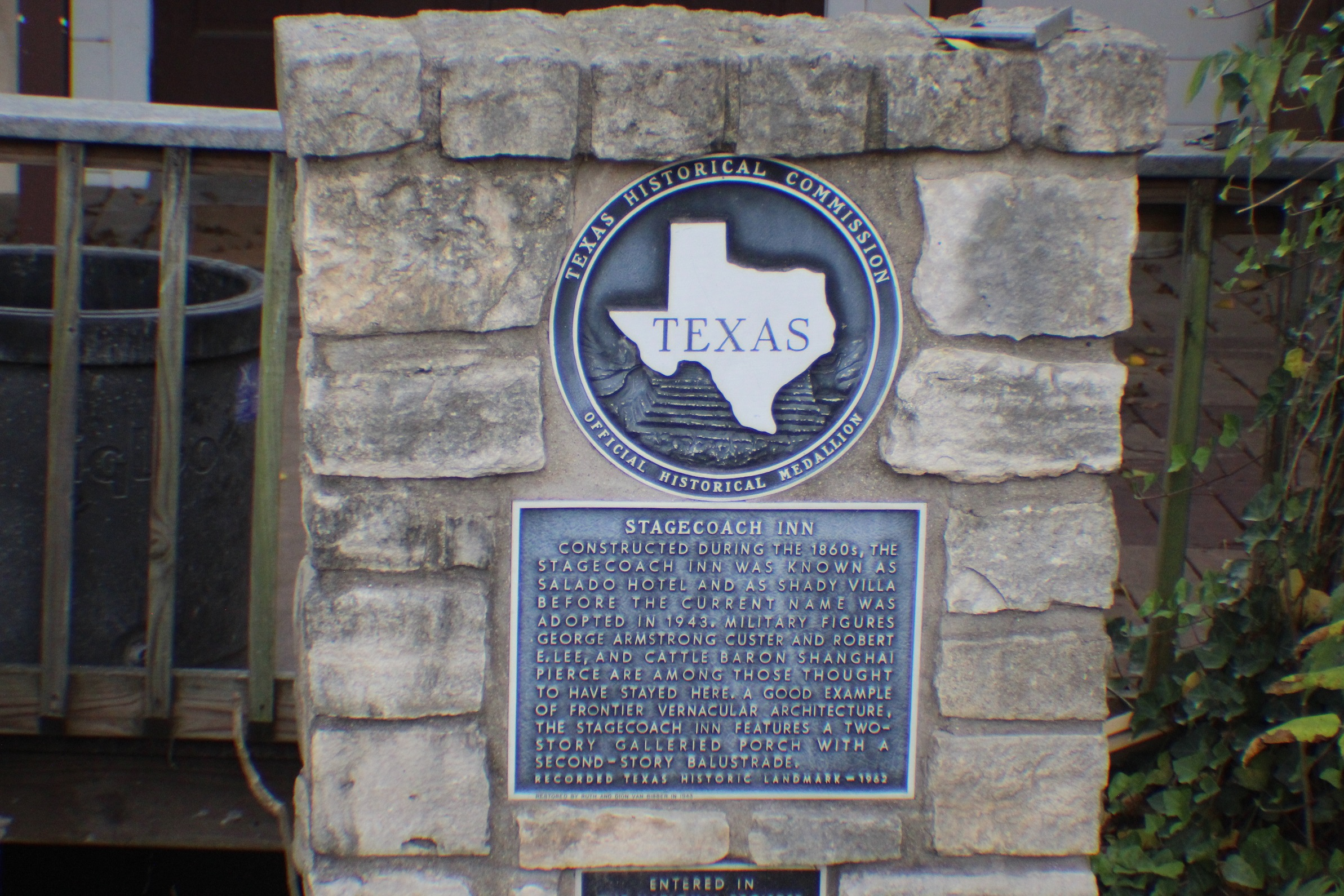 Stagecoach Inn. Constructed during the 1860s, the Stagecoach Inn was known as Salado Hotel and as Shady Villa before the current name was adopted in 1943. Military figures George Armstrong Custer and Robert E. Lee, and cattle baron Shanghai Pierce are among those thought to have stayed here. A good example of frontier vernacular architecture, the Stagecoach Inn features a two-story galleried porch with a second-story balustrade. Recorded Texas Historic Landmark - 1962 #5091